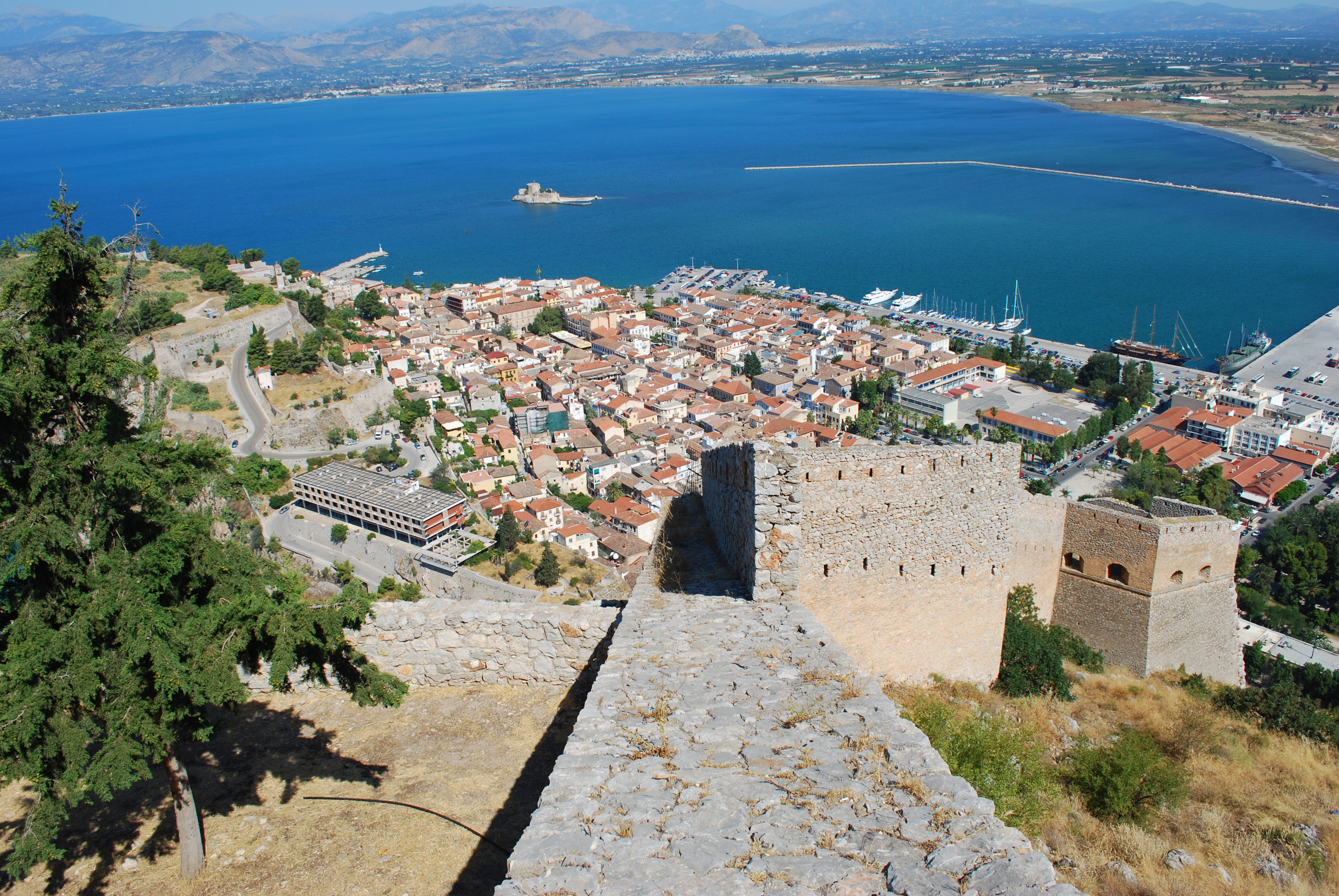 Nafplion, view from Palamidi Castle.